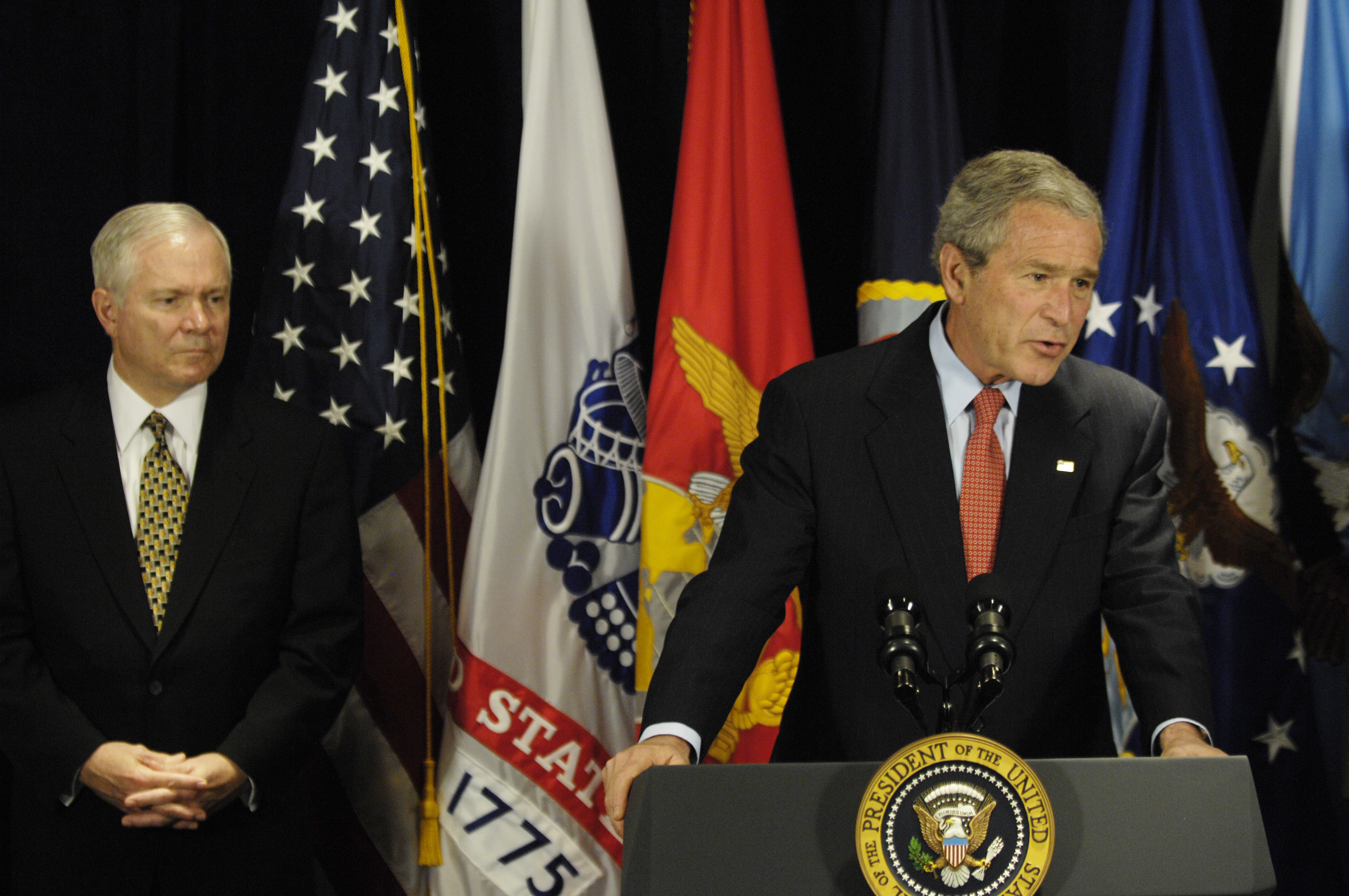 President George W. Bush makes a statement to reporters about the war in Iraq after his meeting with senior national defense leaders at the Pentagon, May 10, 2007.